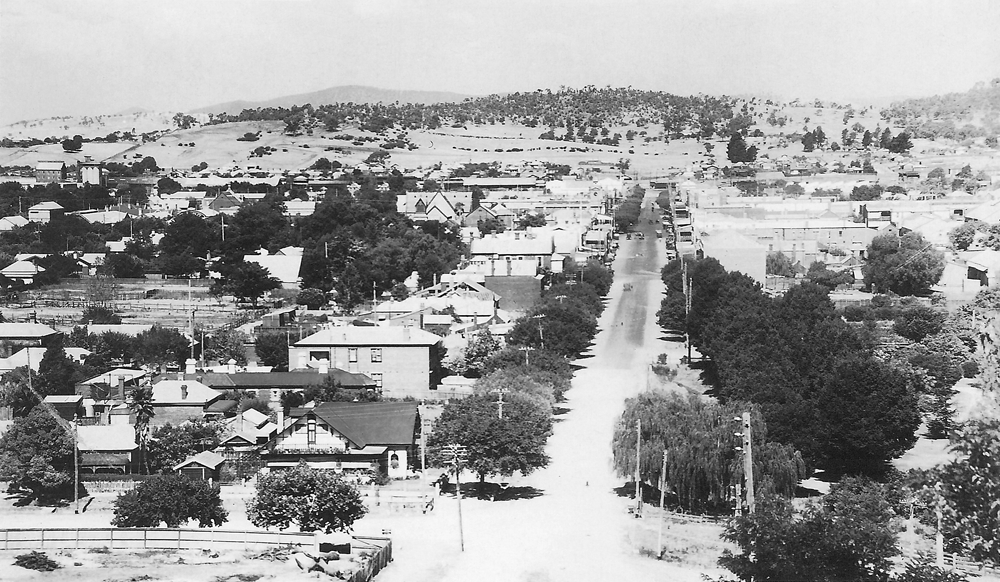 Looking down Dean Street Albury (1920s - 1930s) from Monument Hill.